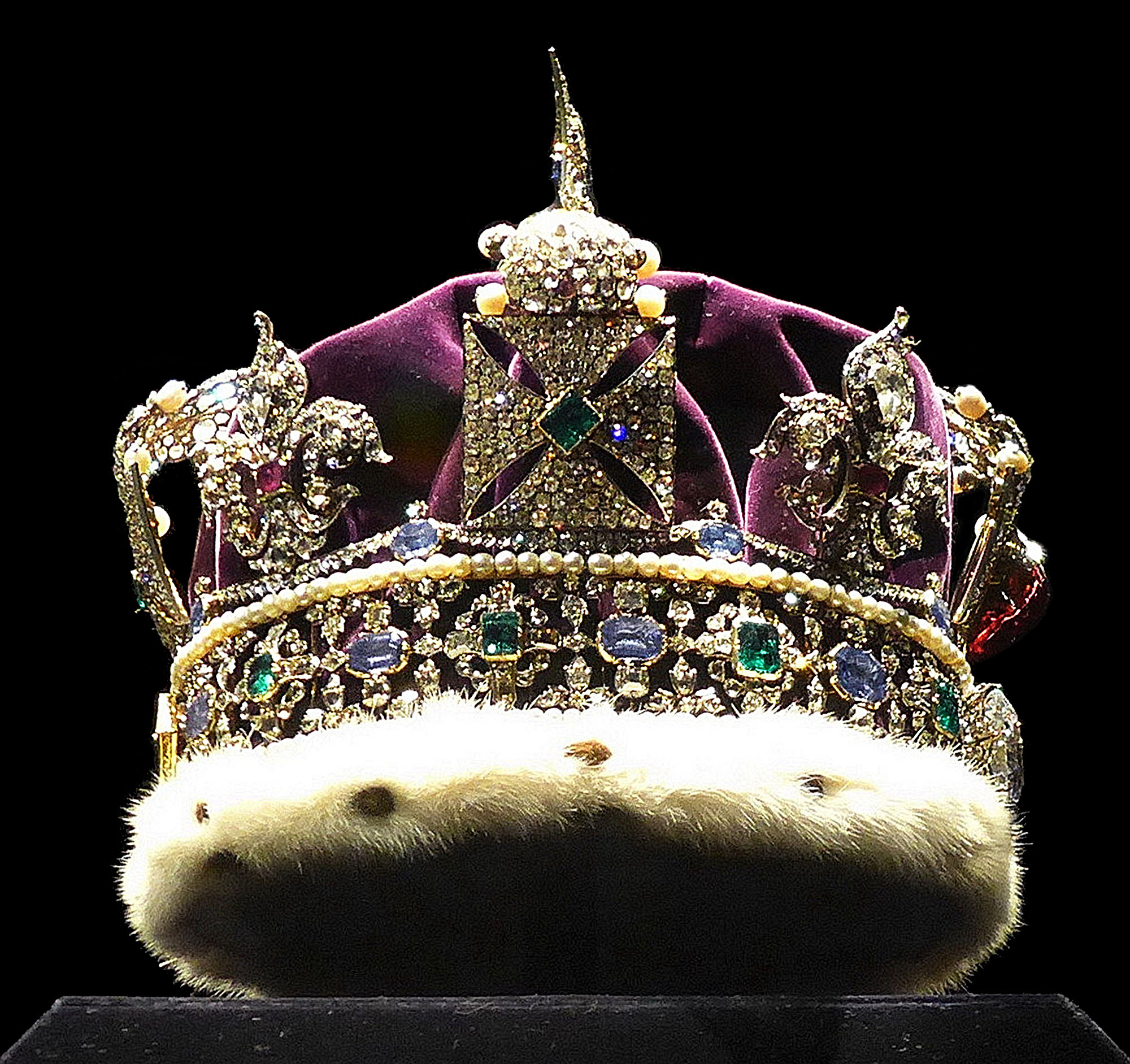 Blackened out background of Imperial State Crown (made in 1937 with alterations in 1953) - side view from bottom up with the front to the right; picture taken at the exhibition of the Crown Jewels of the United Kingdom inside the Jewel House (Waterloo Baracks, Tower of London)